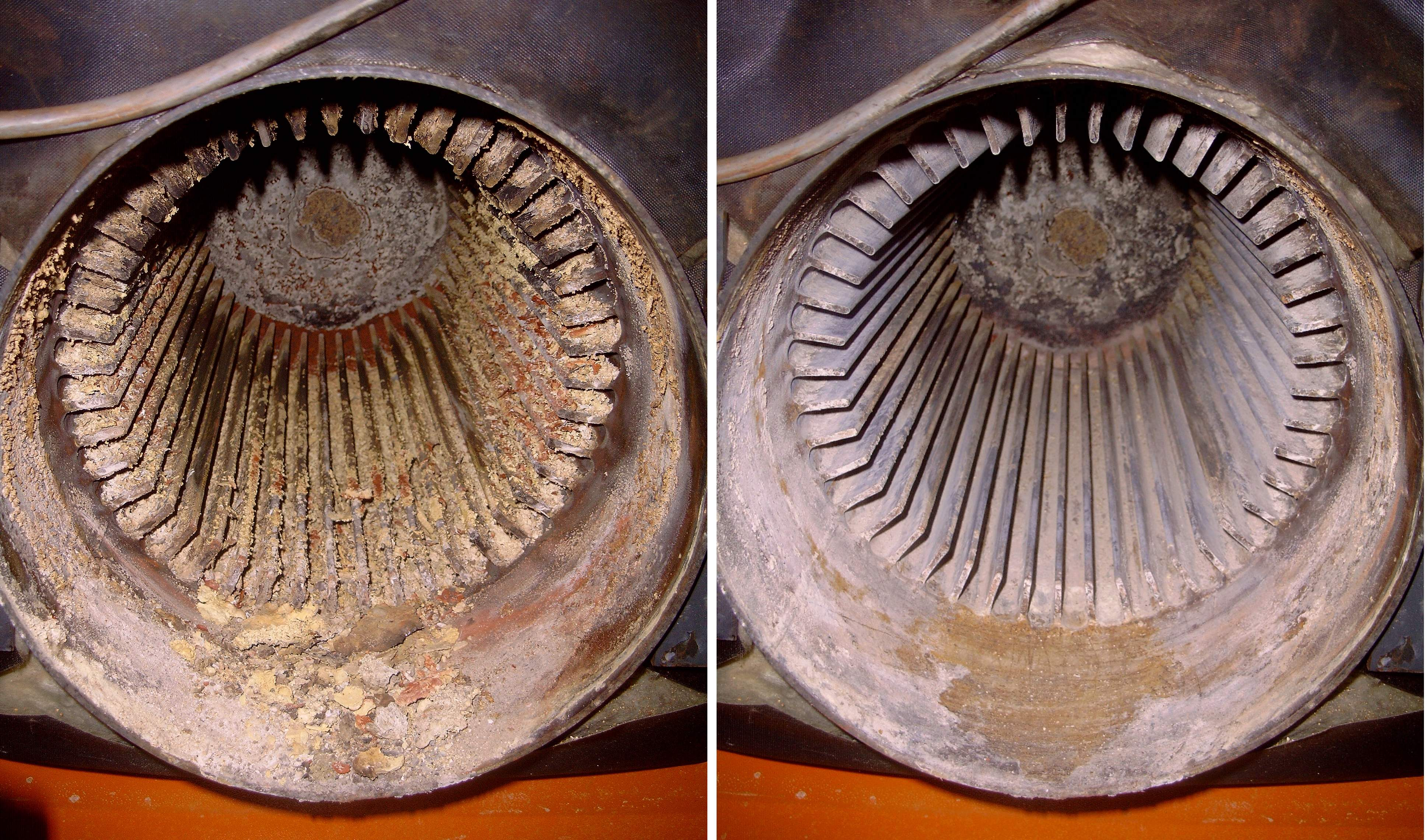 Furnace chamber with ash residues from burned heating oil, before and after cleaning